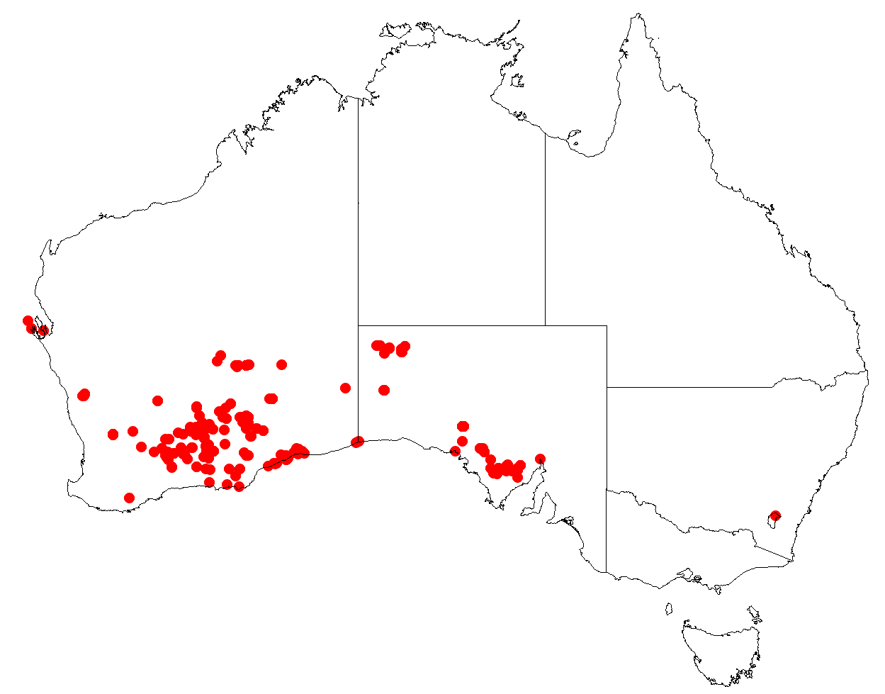 Allocasuarina helmsii occurrence data from Australasian Virtual Herbarium download 4 July 2018